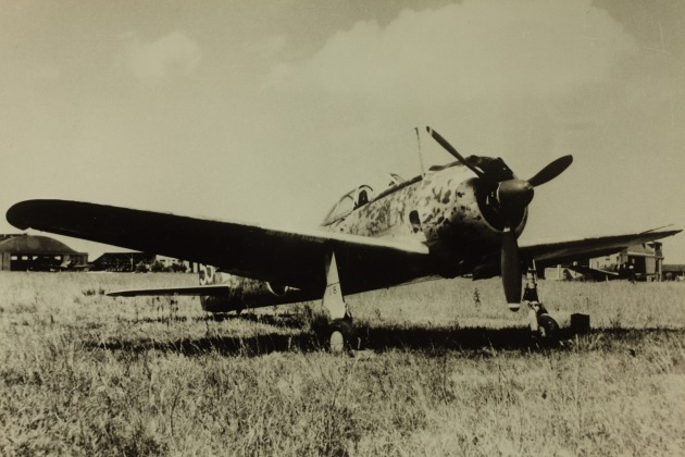 PictionID:6485558 - Catalog:01_00086176 - Title:Nakajima, Ki-43, Hayabusa 'Peregrine Falcon' Oscar 'Jim' Army Type 1 Fighter - Filename:01_00086176.TIF - Image from the Charles Daniels Photo Collection album "Seversky, Republic and P-47"----PLEASE TAG this image with any information you know about it, so that we can permanently store this data with the original image file in our Digital Asset Management System.----SOURCE INSTITUTION: San Diego Air and Space Museum Archive